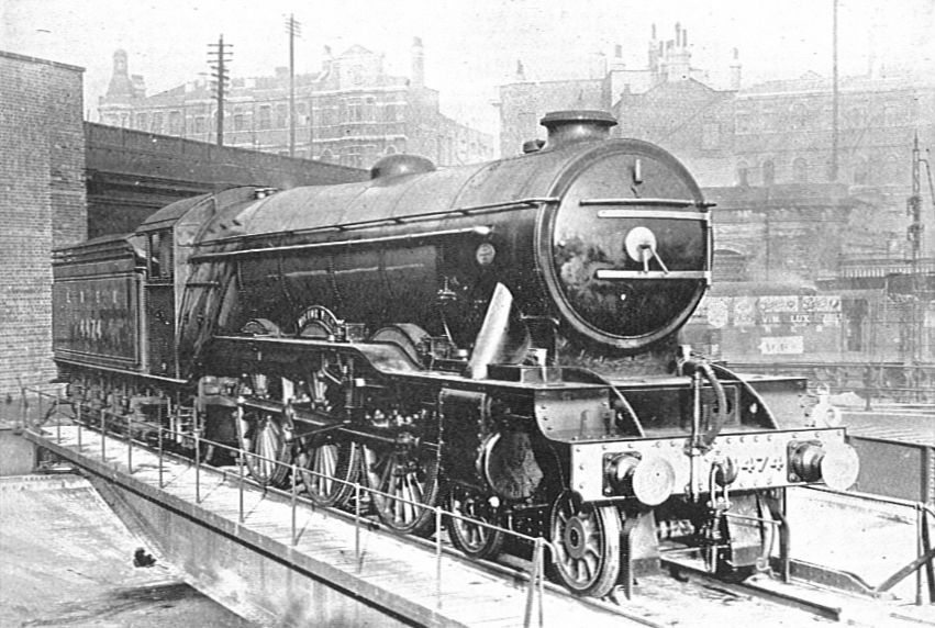 "Pacific" Locomotive on 70-ft Turntable at King's Cross This is the LNER Locomotive which ran over the GWR to Plymouth in the "Exchange" of 1925 Photo: LNER No. 4474 Victor Wild